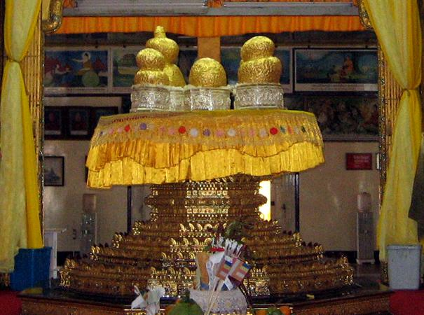 Buddha statues of Hpaung Daw U Pagoda, Inlay Lake, Shan State, Myanmar (Burma)